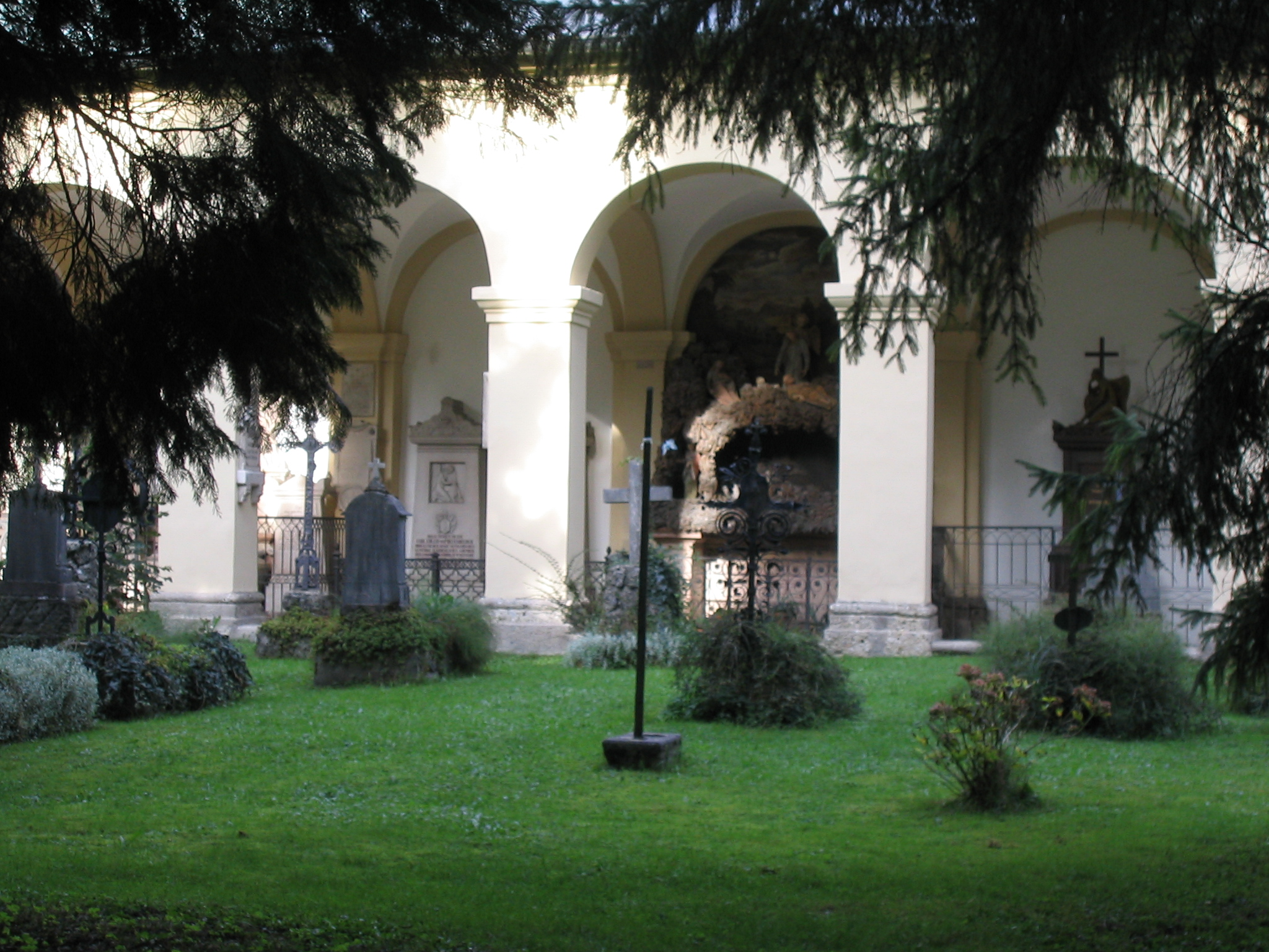 Sebastiansfriedhof (cemetery), Salzburg